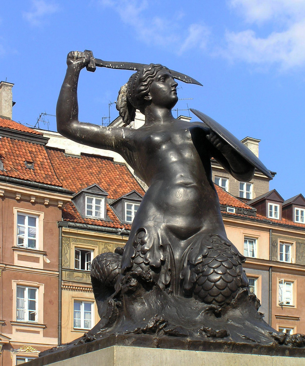 The monument of Warsaw's Syrenka, Old Town, Warsaw, Poland